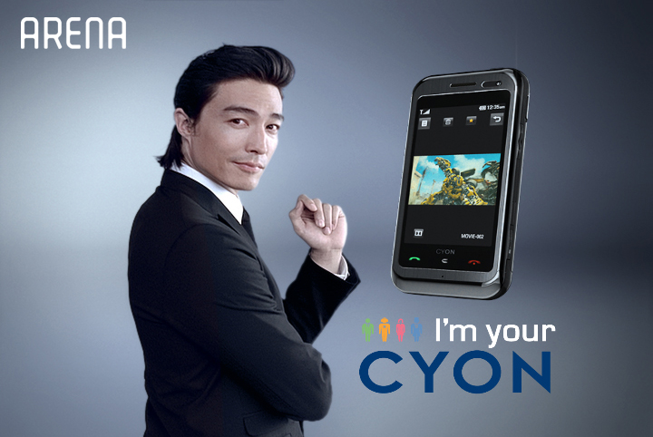 CYON 아레나폰 CF(다니엘 헤니)